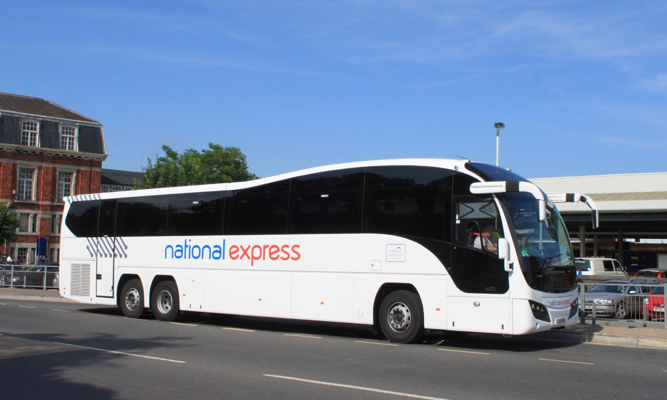 A National Express service picks up passengers outside the railway station in newton Abbot, Devon. The Plaxton Elite is LSK815 which is operated by Parks of Hamilton in their Plymouth-based fleet.